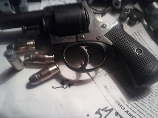 Belgian made 44 caliber Bulldog revolver with recently made ammunition